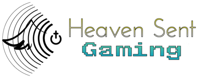 Heaven Sent Gaming's logo. This commons copy has a resolution limit, and this size is it.